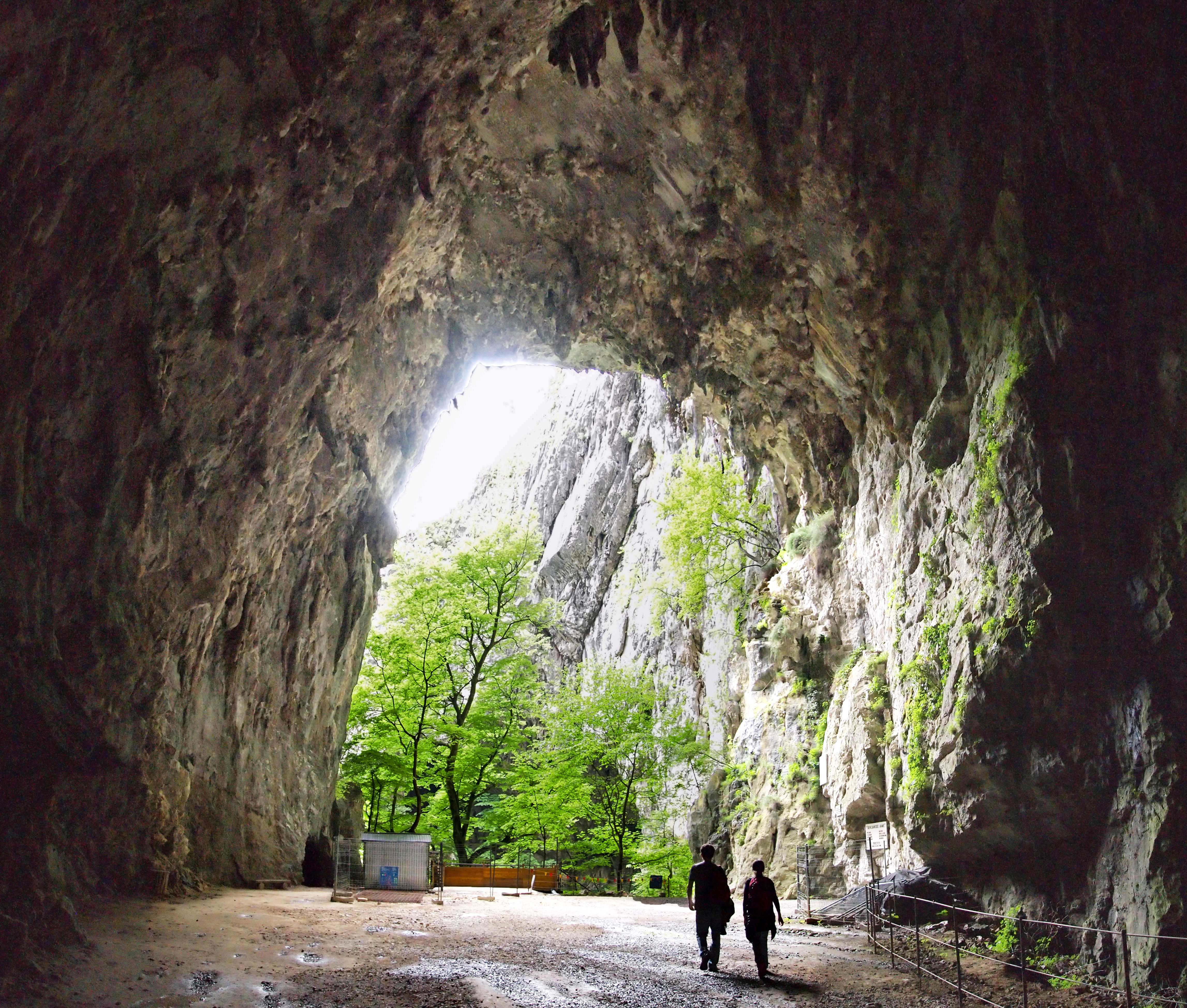 View on the exit of the "traditional route" of Škocjan cave.